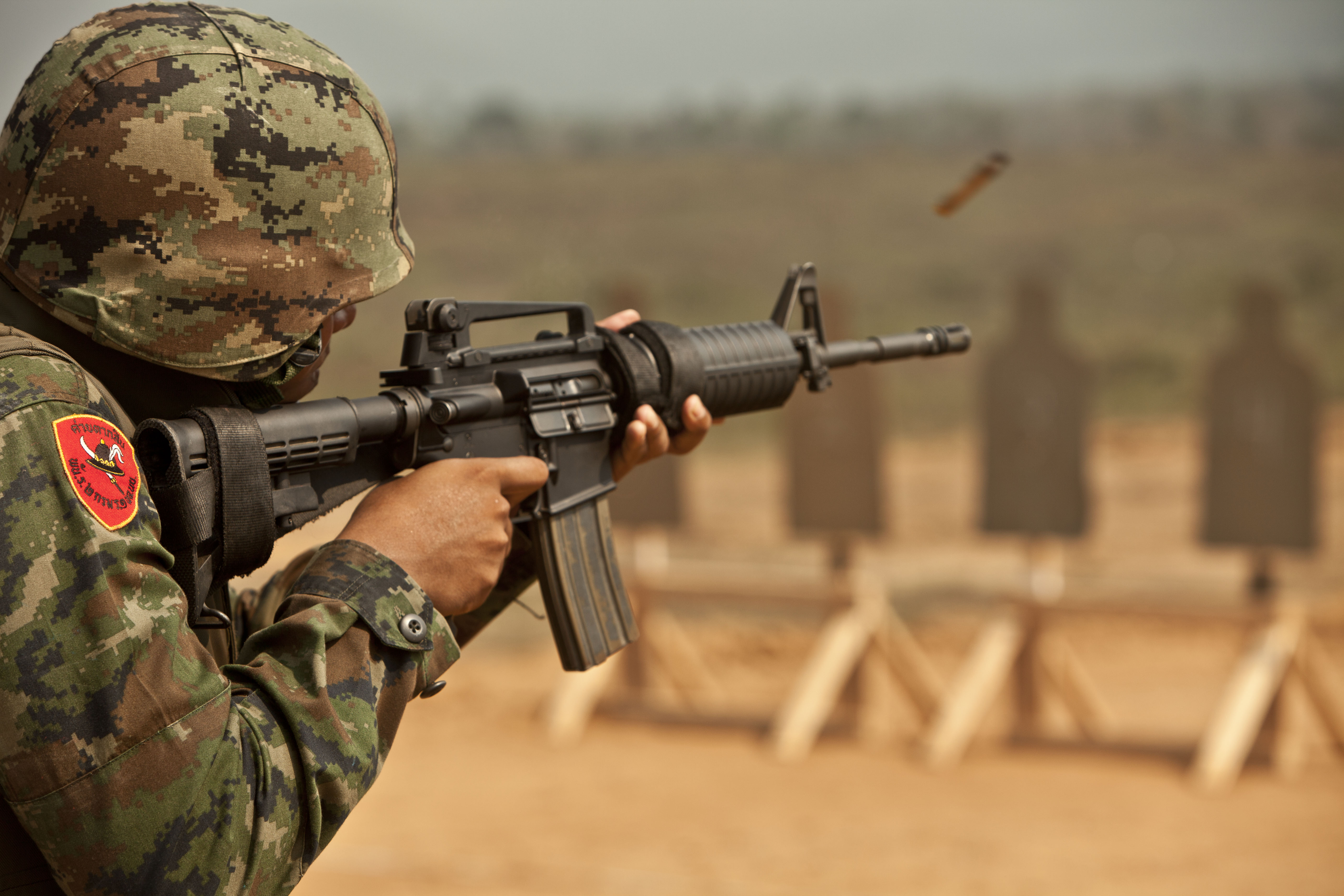 A Royal Thai Marine engages targets after receiving professional military instruction on combat marksmanship here Feb. 13. During the training, the Royal Thai and Republic of Korea Marines were assisted by coaches from Combat Assault Battalion, 3rd Marine Division, III Marine Expeditionary Force, during Exercise Cobra Gold 2012. Cobra Gold is a recurring multinational and multiservice exercise co-hosted by the Royal Kingdom of Thailand and the U.S. designed to advance regional security by exercising a multinational force from nations sharing common goals and security commitments in the Asia-Pacific region. (U.S. Marine Corps photo by Sgt. Brandon L. Saunders/released)